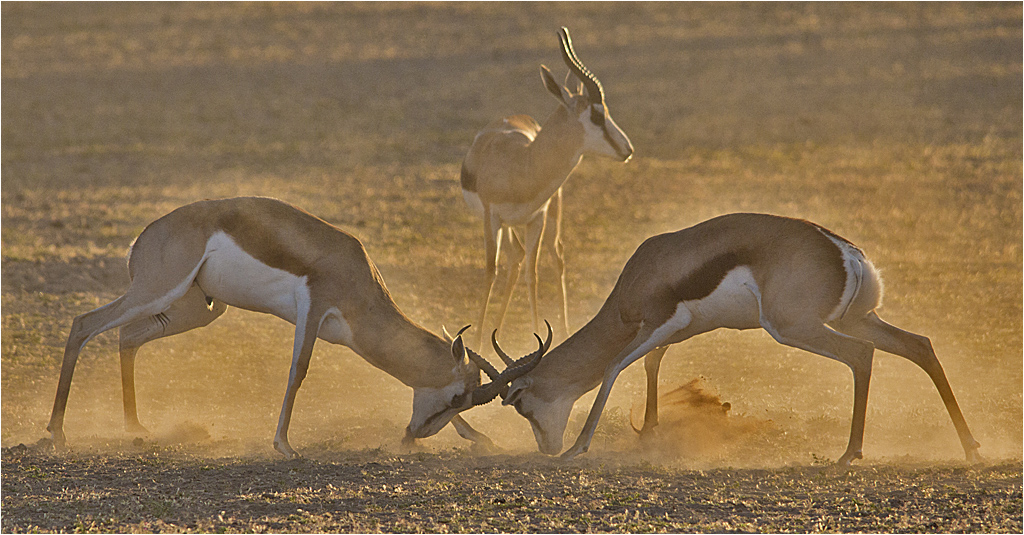 Mock fight. Animals of the Kgalagadi Transfrontier Park, South Africa